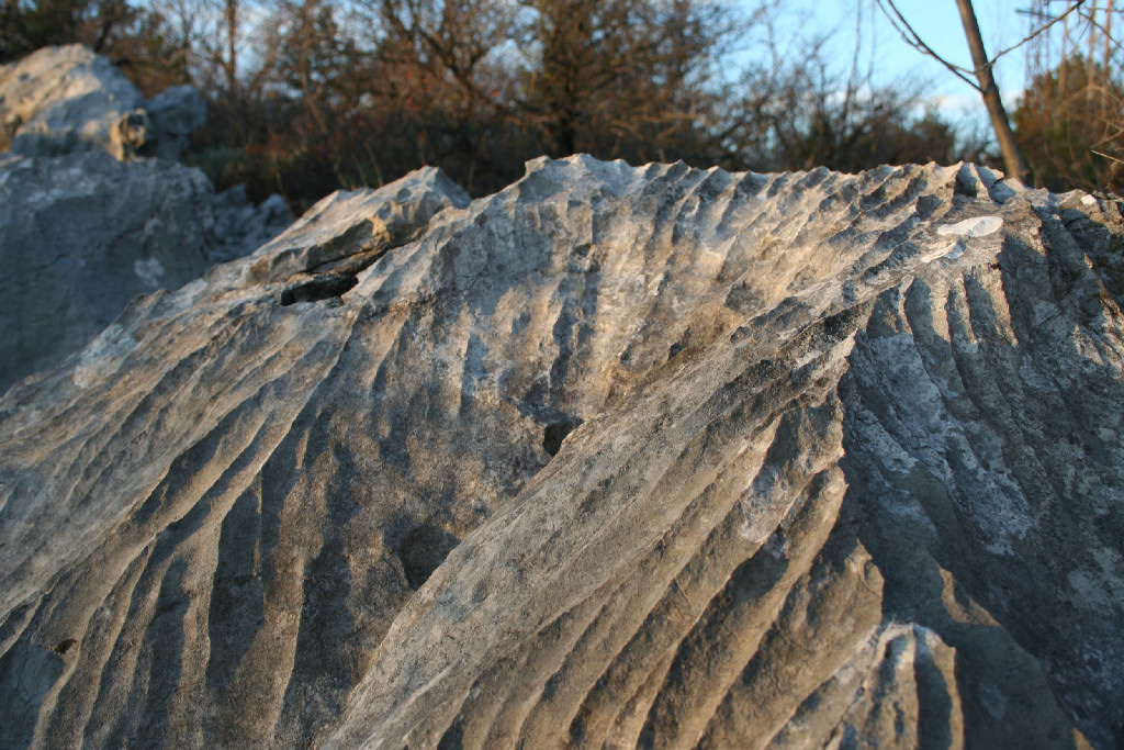 Žlebiči (grooves, similar to Limestone pavement), are a Karst property in slovenian Kras, as in many other Karst areas of the world.